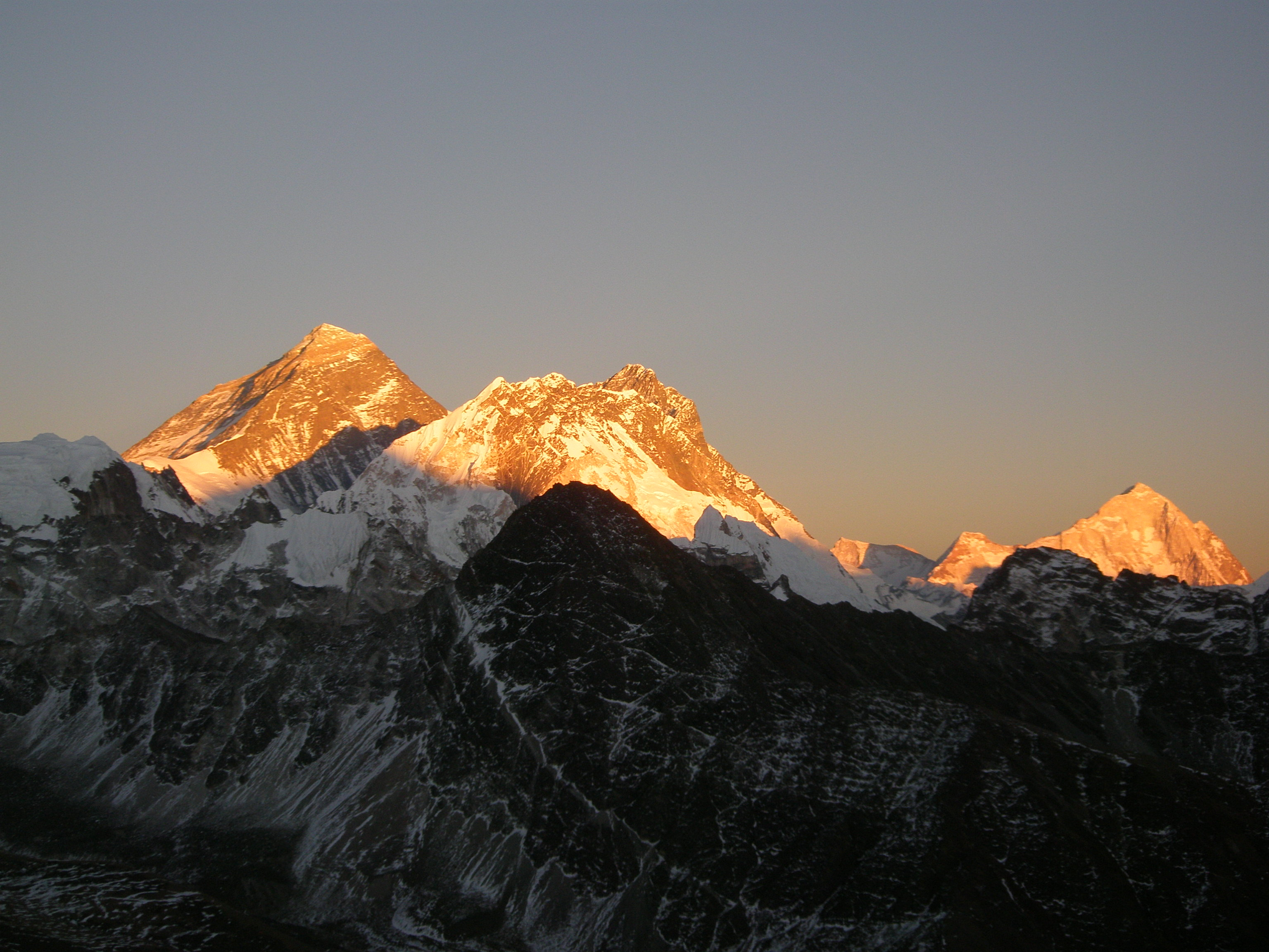 Mt. Everest, Lhotse and Makalu at sunset, view from Gokyo Ri.